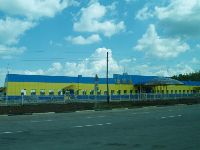 Soniachnyi Stadium in Kharkiv, Ukraine